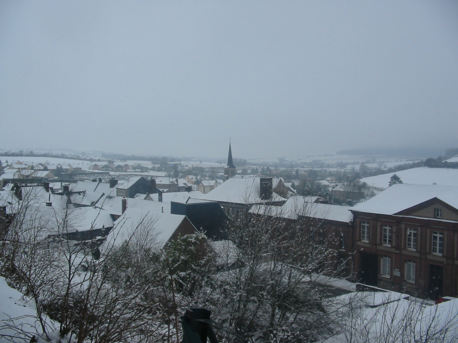 Gaillefontaine, France (76870). February 2003. Snowy